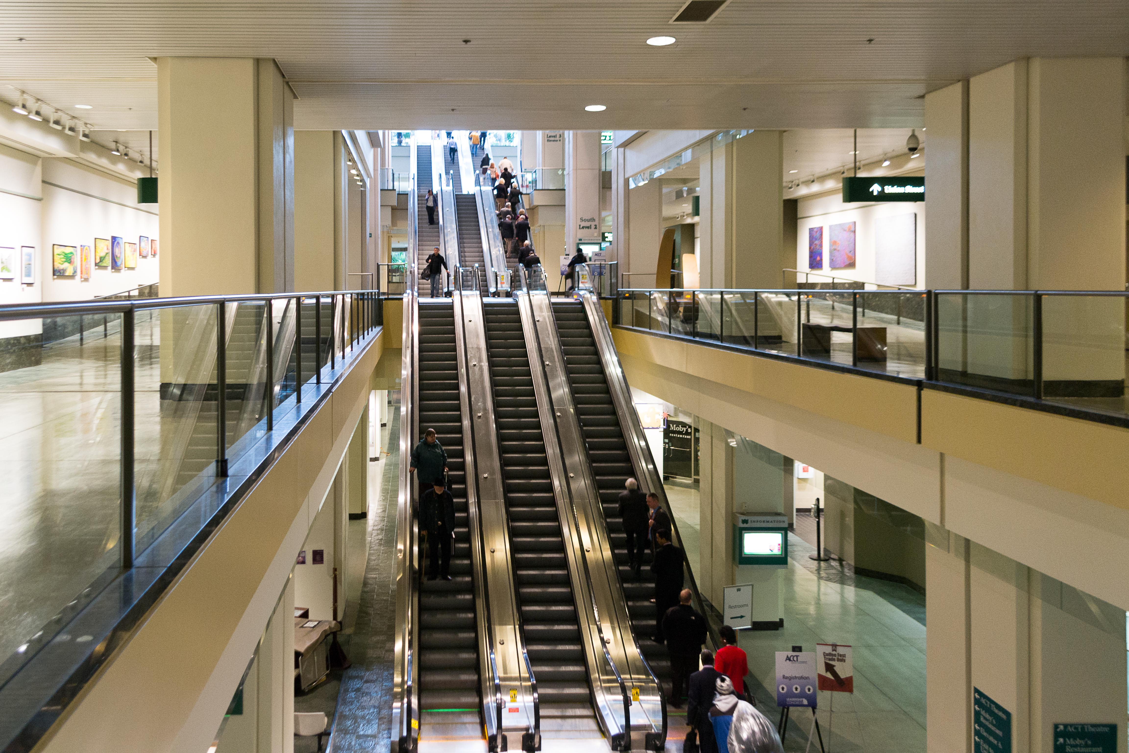 Inside the Washington State Convention and Trade Center